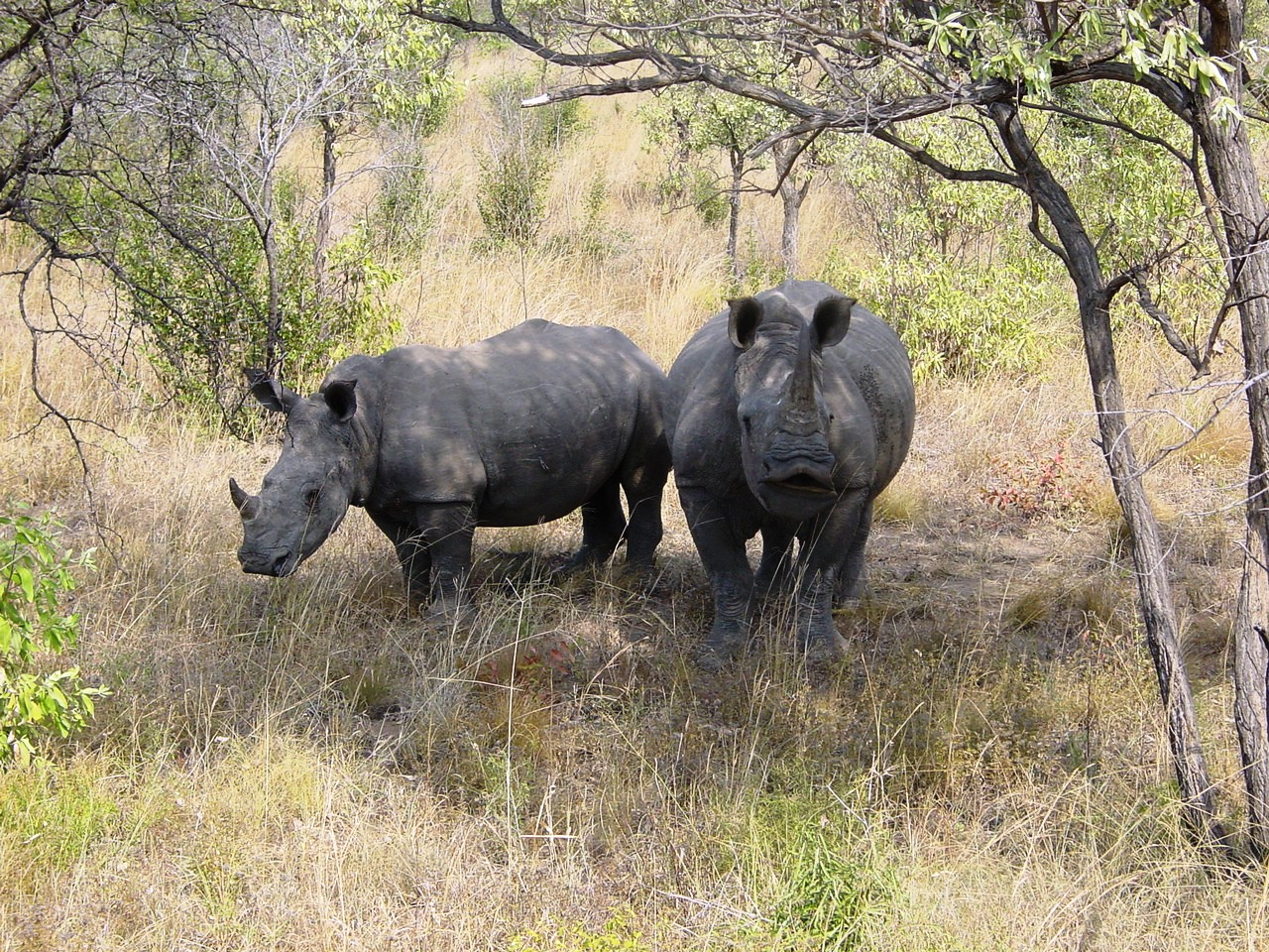 Ceratotherium simum, Kruger National Park